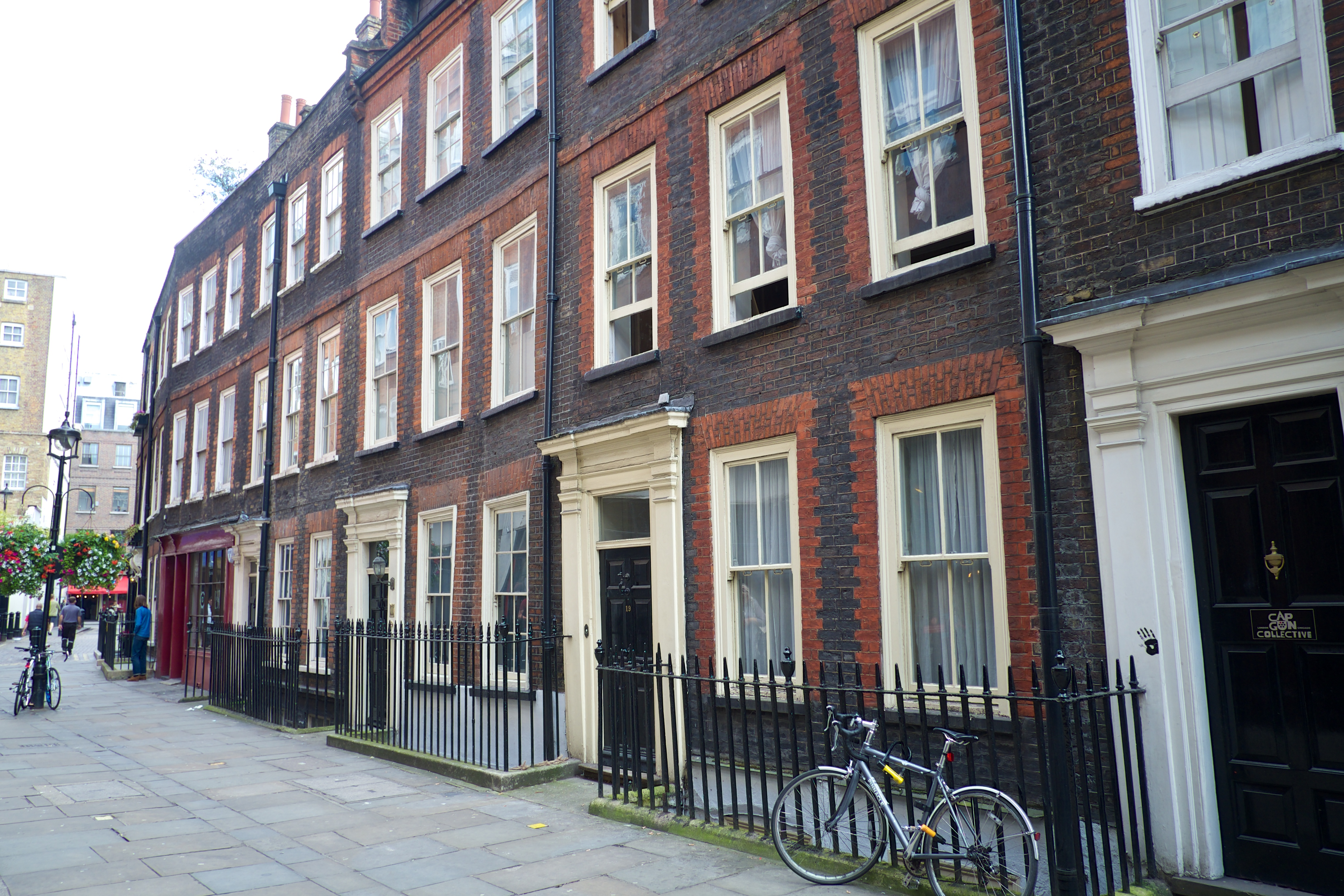 13-21, MEARD STREET W1 Wikidata has entry Q68593976 with data related to this building.